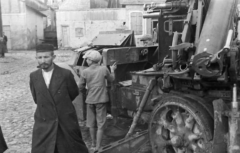 Polish damaged self-propelled 75 mm AA gun wz.18/24 on de Dion-Bouton chassis (French made, originally Mle 1913). This guns was abandoned in Mielec, not Kielce.